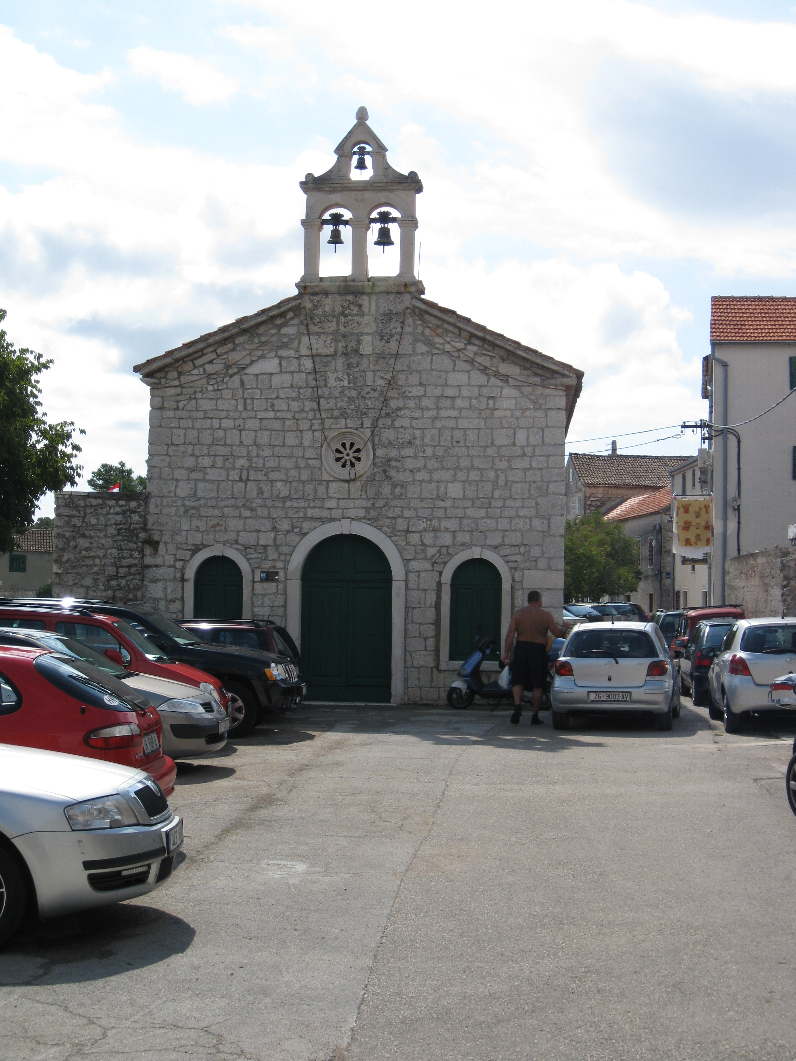 Images from Tisno, city in Croatia